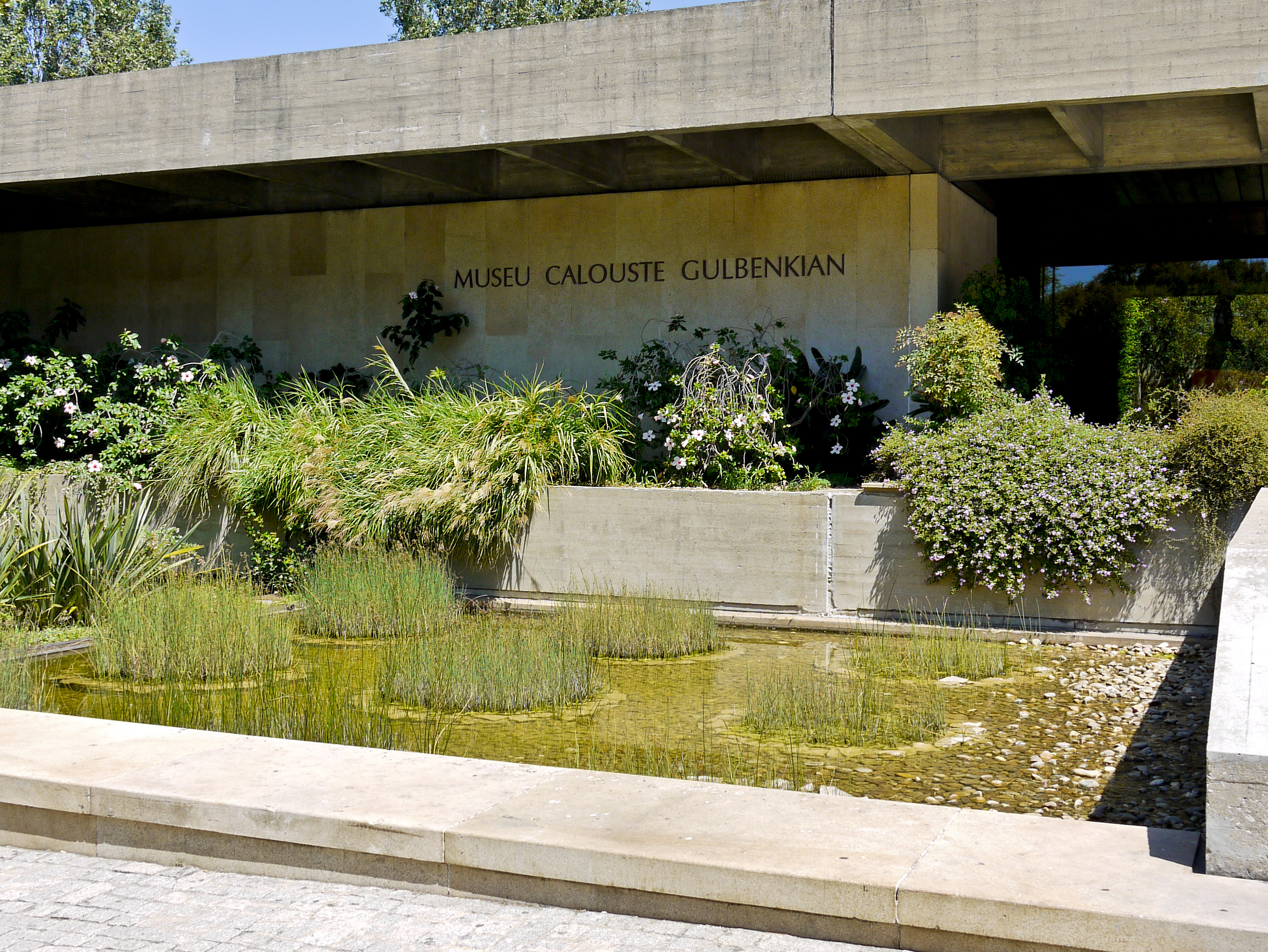 Museum Calouste Gulbenkian, Lissabon, Portugal.